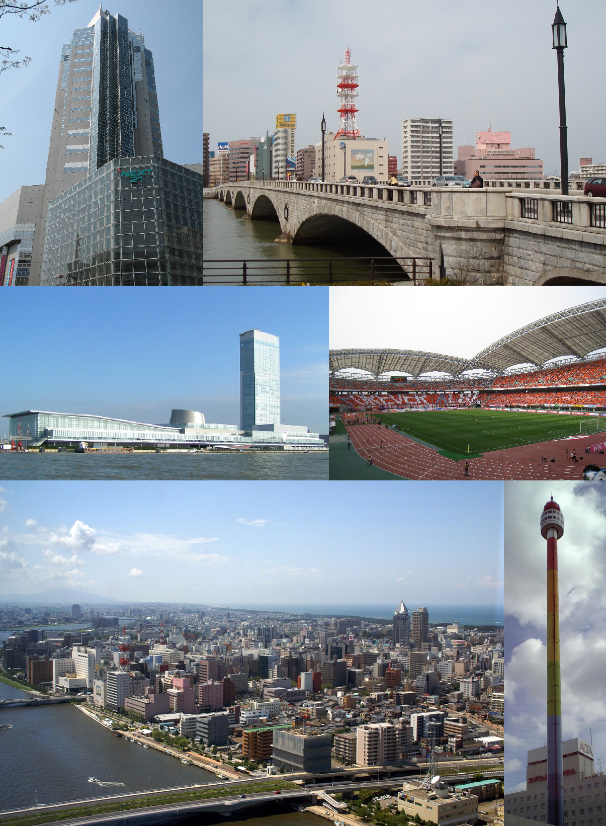 From top left: NEXT21, Bandai Bridge, Toki Messe, Niigata Stadium, Central Niigata and Shinano River, Rainbow Tower